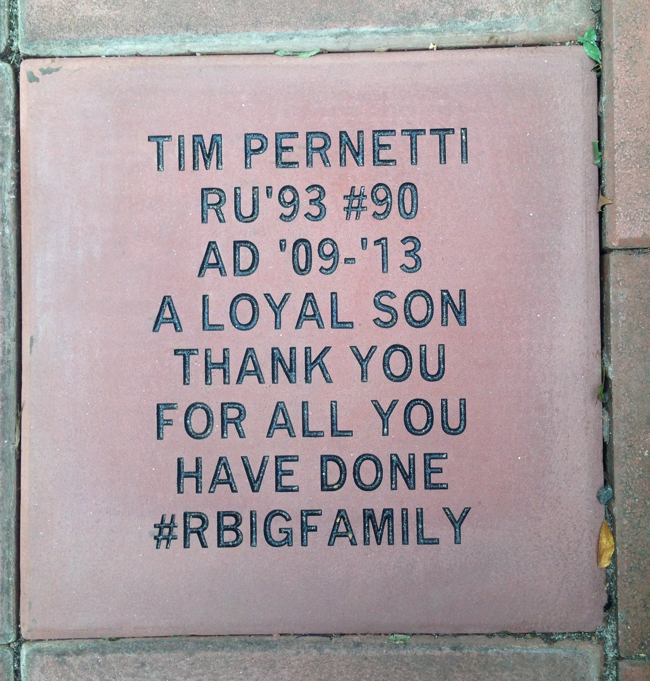 Rutgers Alumni and Donors contributed to permanently commemorating the contributions of Tim Pernetti following his forced resignation in April, 2013